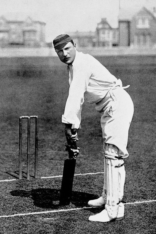 Sport, Cricket, Circa 1895, John Richard Painter, Gloucestershire.